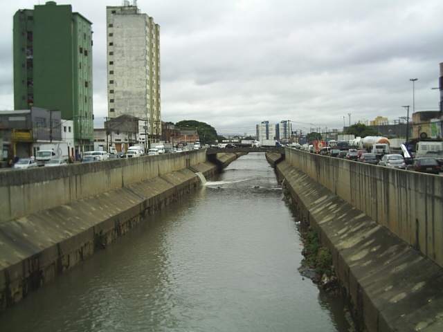 Tamanduateí river in downtown of São Paulo City.